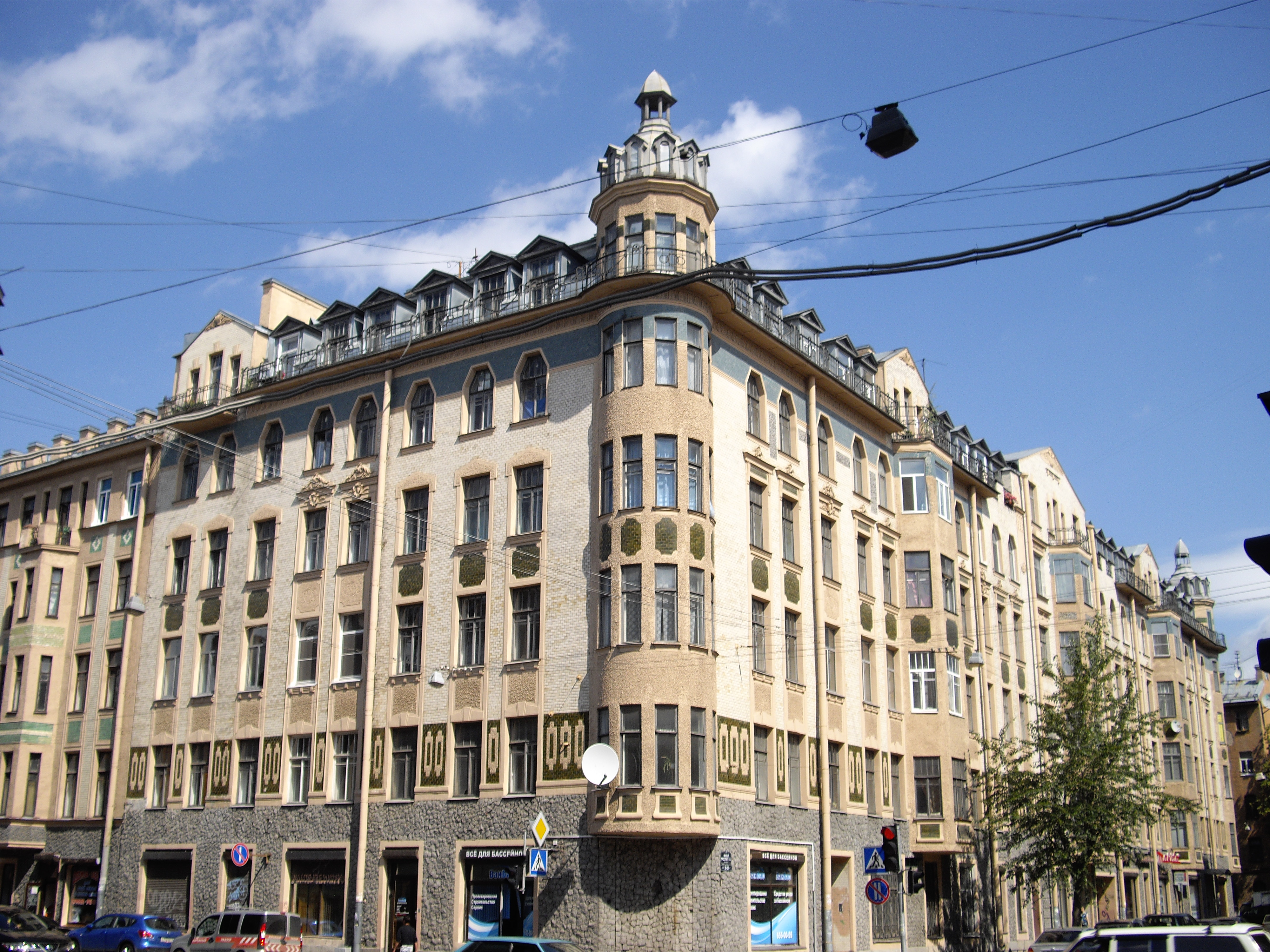 26-28, Malyi Prospekt P.S. - 11, Pionerskaya Street, Saint Petersburg, Russia. The house of M. D. Kornilov, architect A. F. Baranovsky, 1910.